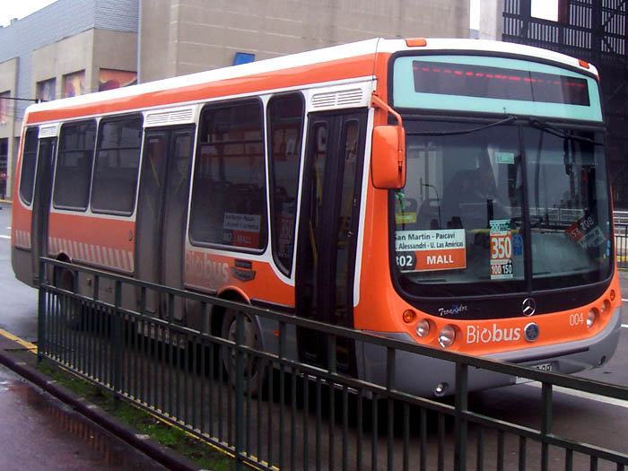 Metalpar Tronador bus (#004) with Mercedes-Benz chassis in Concepción, Chile. Built between 2002 - 2006. Biovías - Biobús.